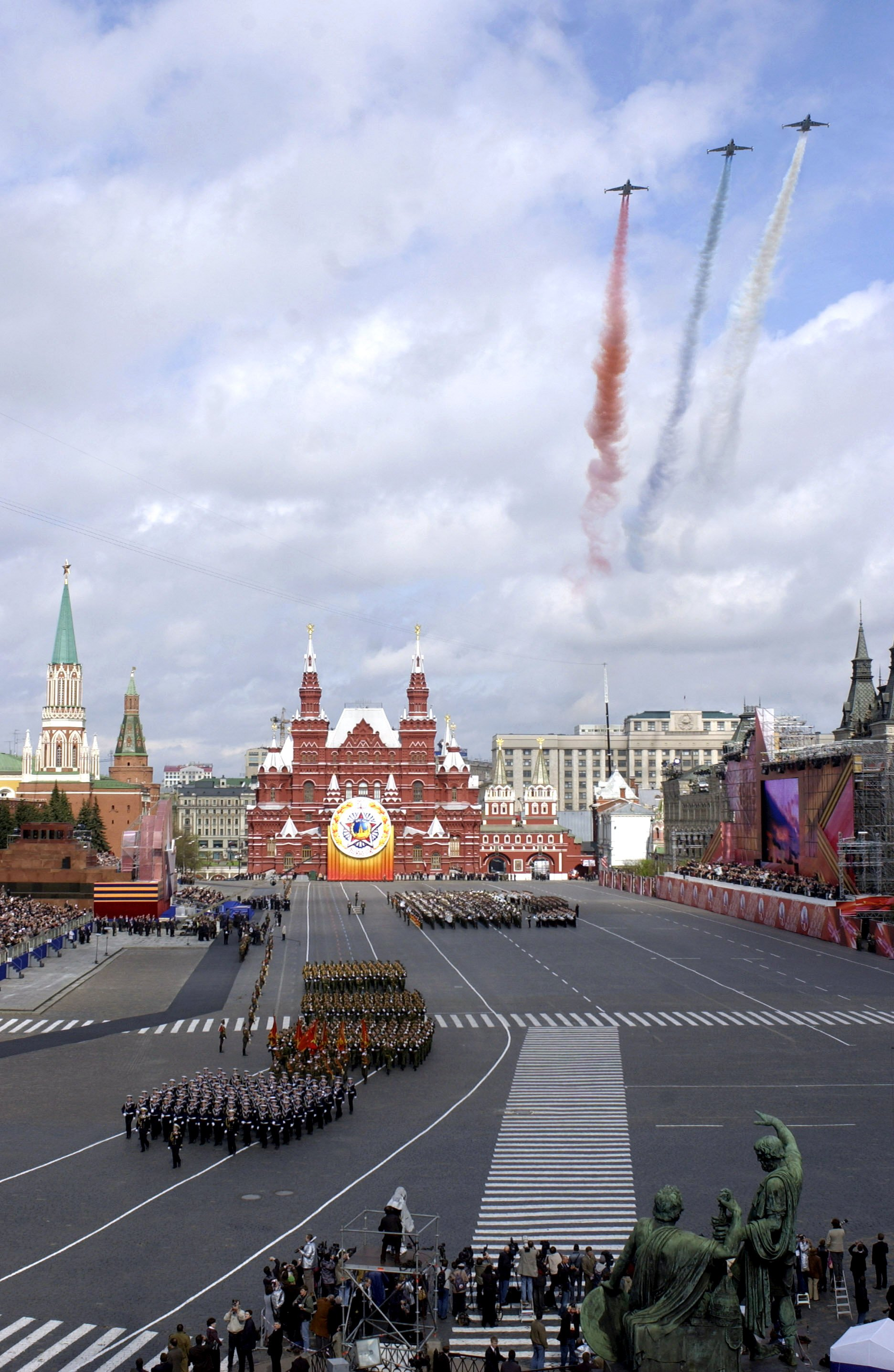 RED SQUARE, MOSCOW. Military parade celebrating the sixtieth anniversary of victory in World War II.